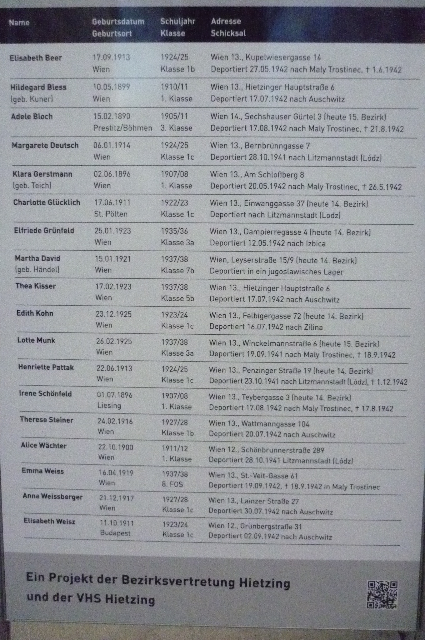 Wenzgasse High School, remembrance to the pupils murdered by the Nazi regime